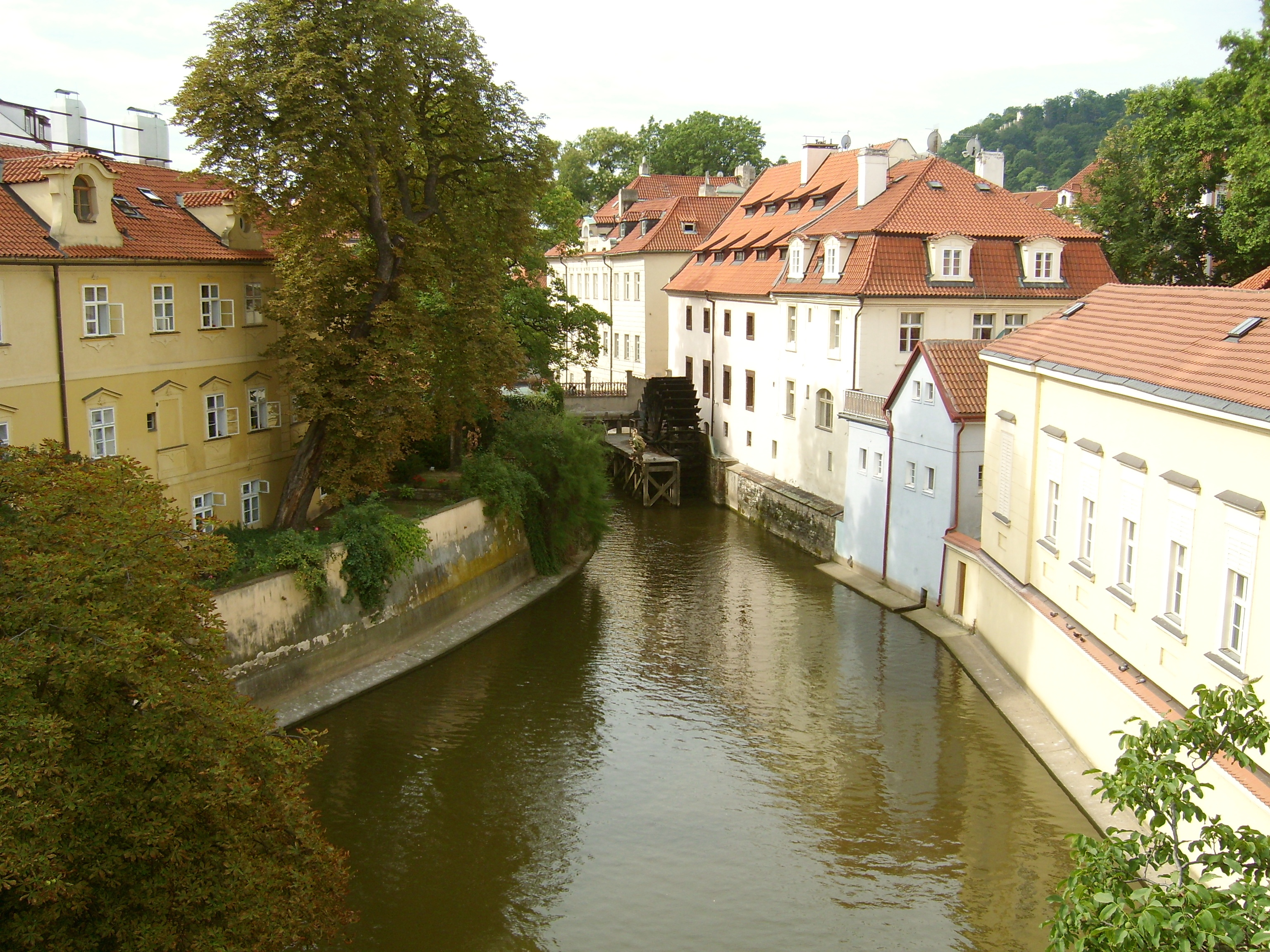 Čertovka, seen from Charles Bridge